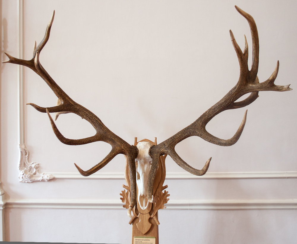 Karapancsa_Stag, location - Karapancsa (Baranya county); hunter - József Bleier; weight 14,50 kg; number of tine ends - odd 26 points (10/13); CIC points - 271,00 IPlabel QS:Len,"Karapancsa_Stag, location - Karapancsa (Baranya county); hunter - József Bleier; weight 14,50 kg; number of tine ends - odd 26 points (10/13); CIC points - 271,00 IP" label QS:Lhu,"Karapancsai gímbika, Karapancsa, Baranya megye, Bleier József, tömeg - 14,50 kg, ágak száma - páratlan 26 (10/13), CIC pontszám 271,00 IP"